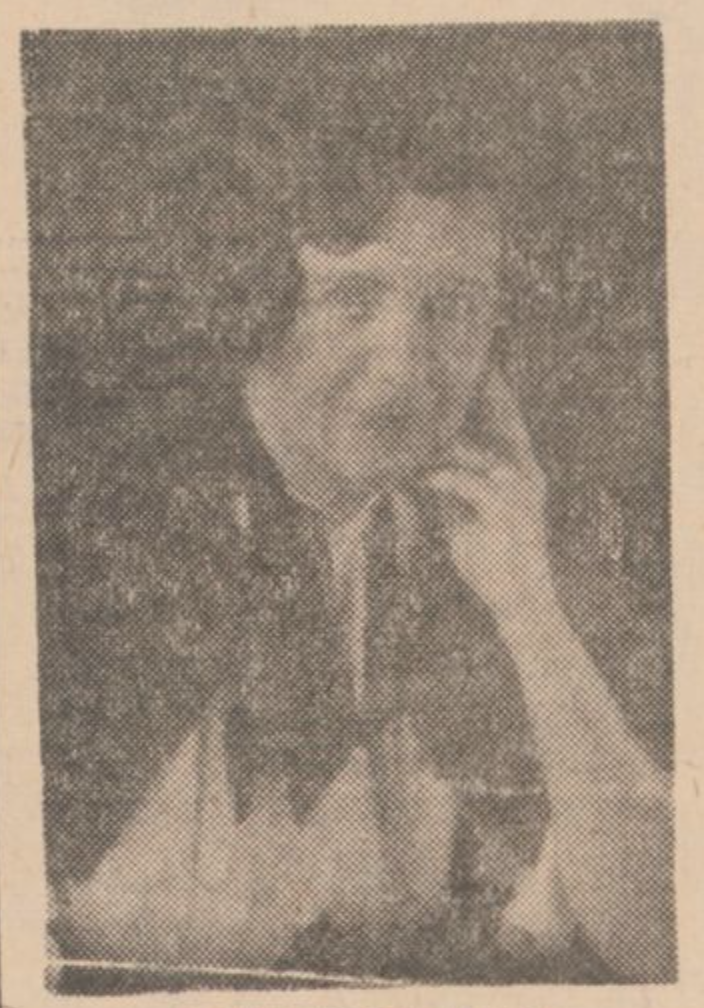 Astrid Väring (1892–1978), Swedish author and journalist. Аҧсшәа: Astrid Väring (1892–1978), svensk författare och journalist.